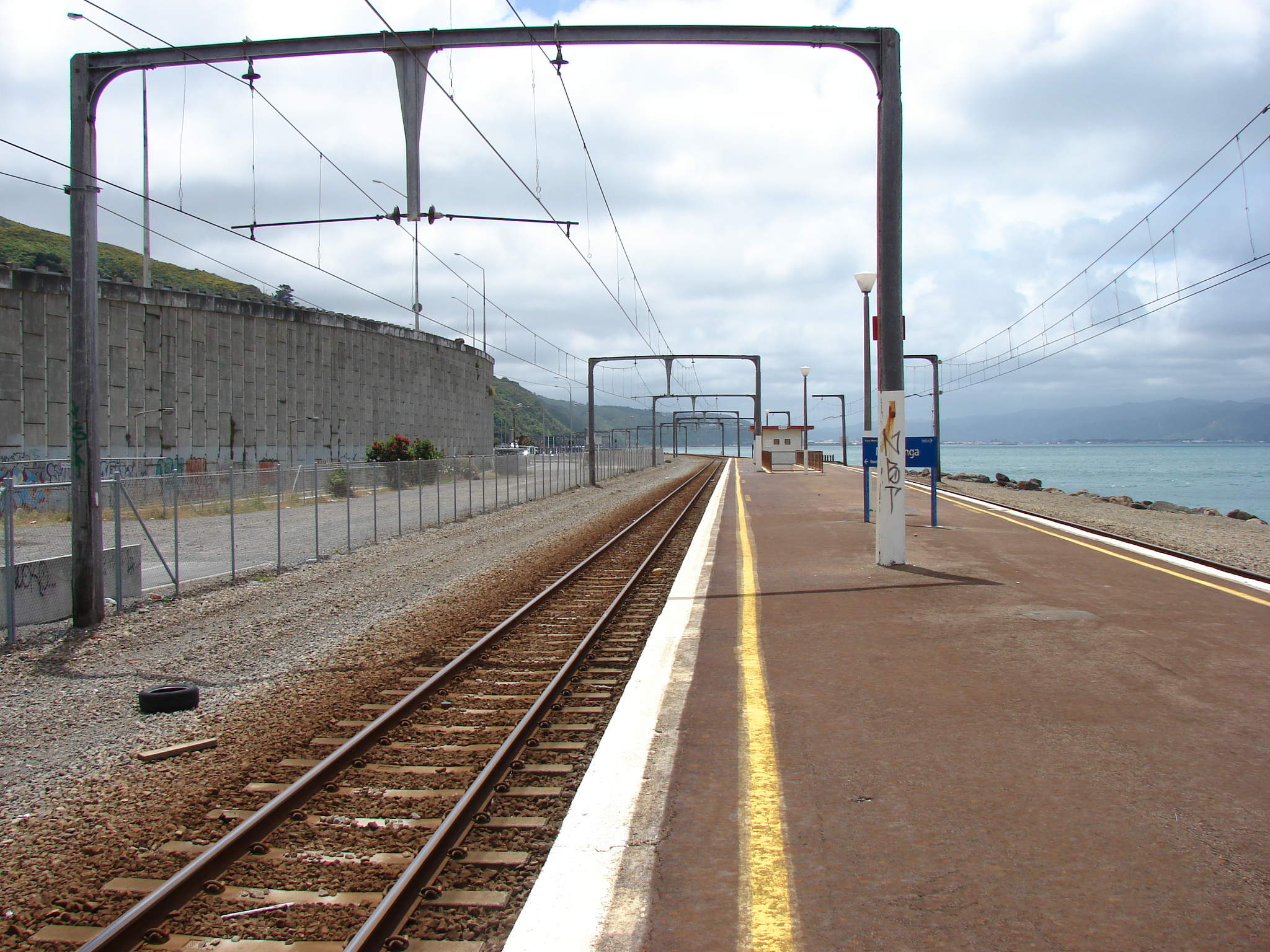 Ngauranga railway station, looking north in the direction of Petone. Photographed by Matthew25187 on 2007-12-24.